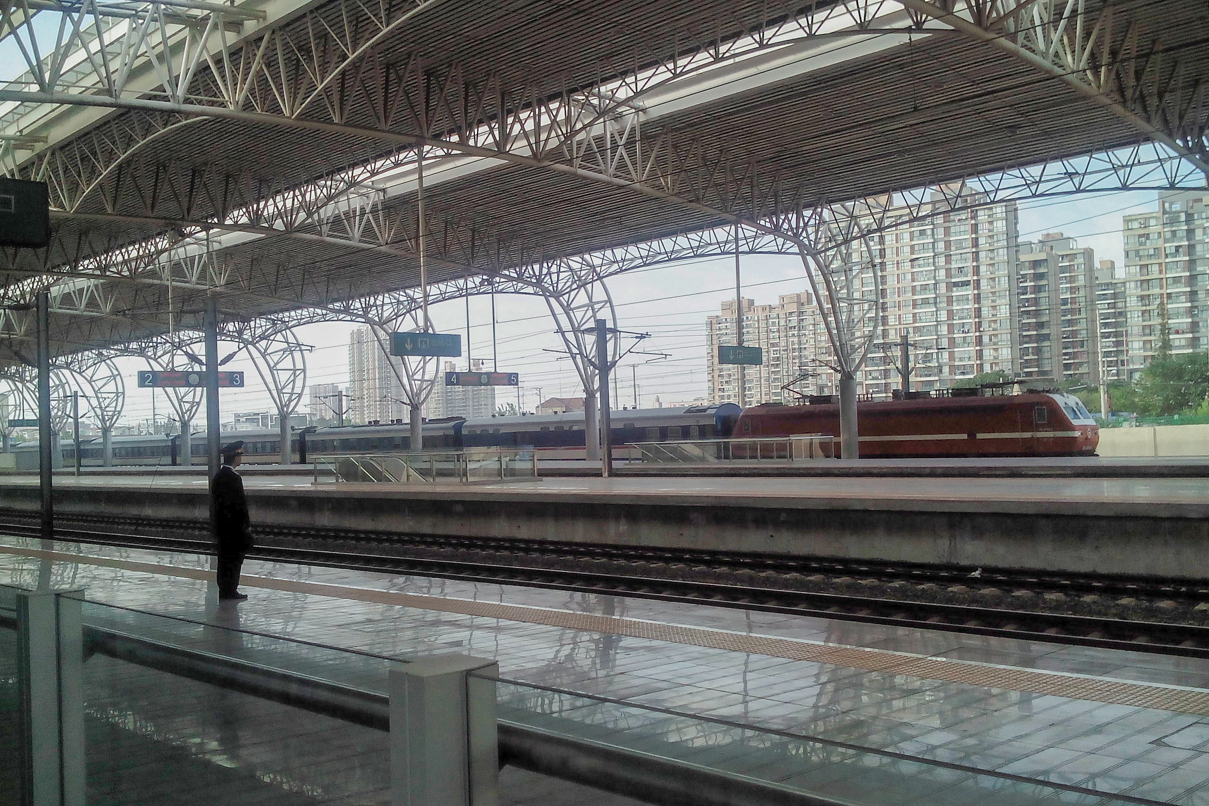 201410 SS7E at Shanghaixi Railway Station